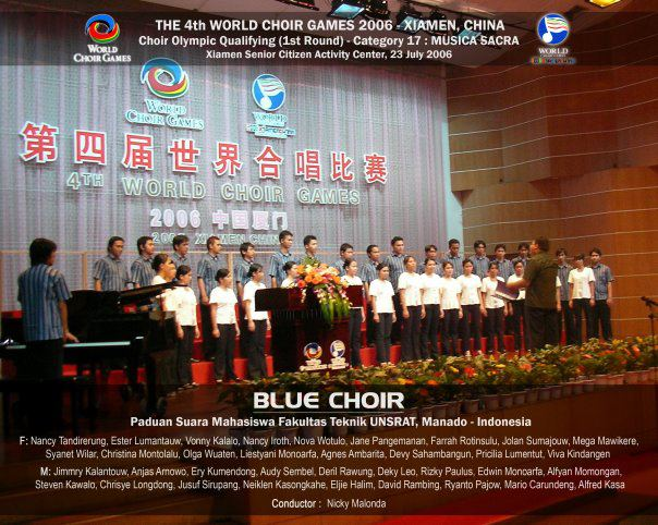 Blue Choir at World Choir Games, Xiamen - China (2006)